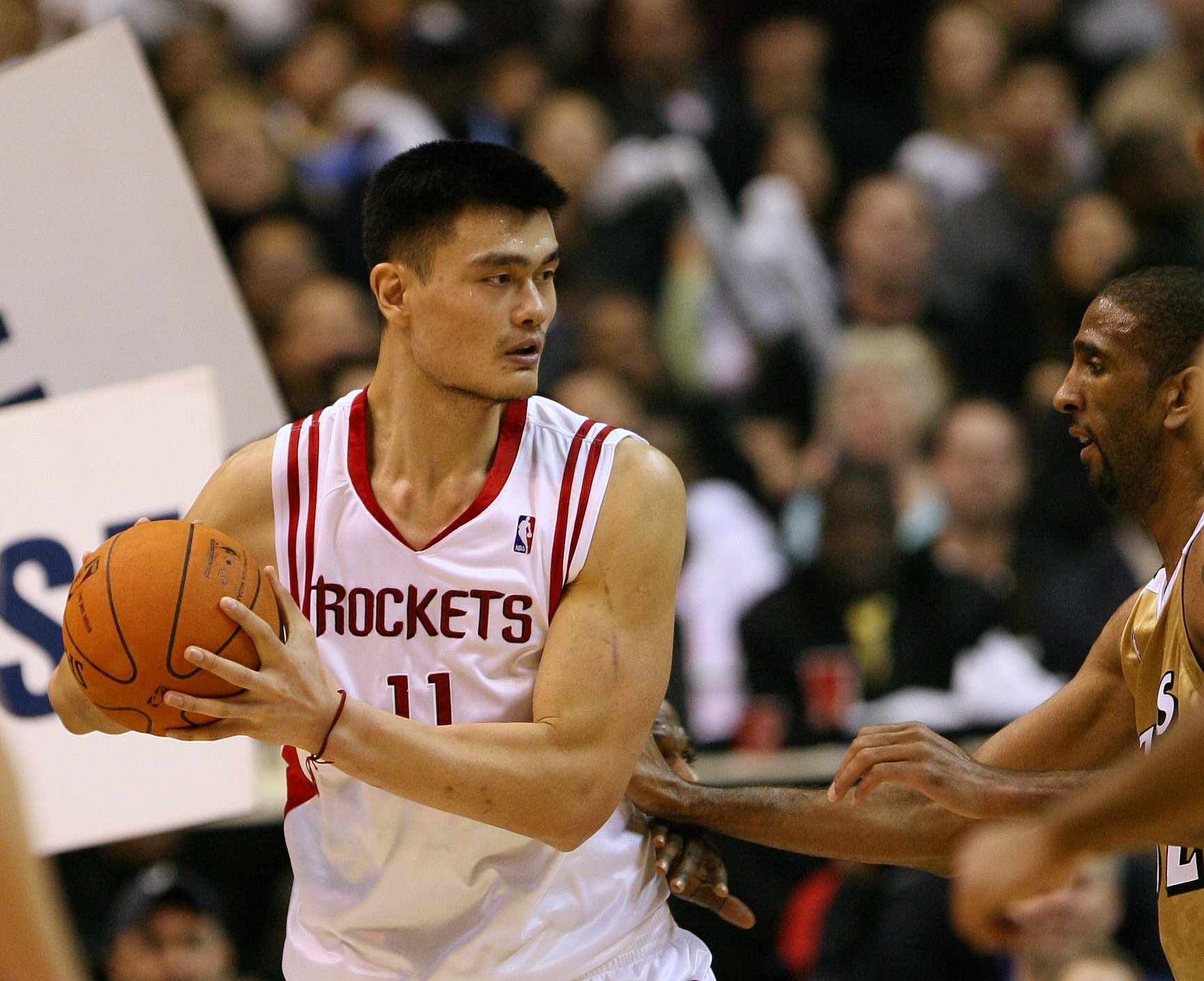 Image used at